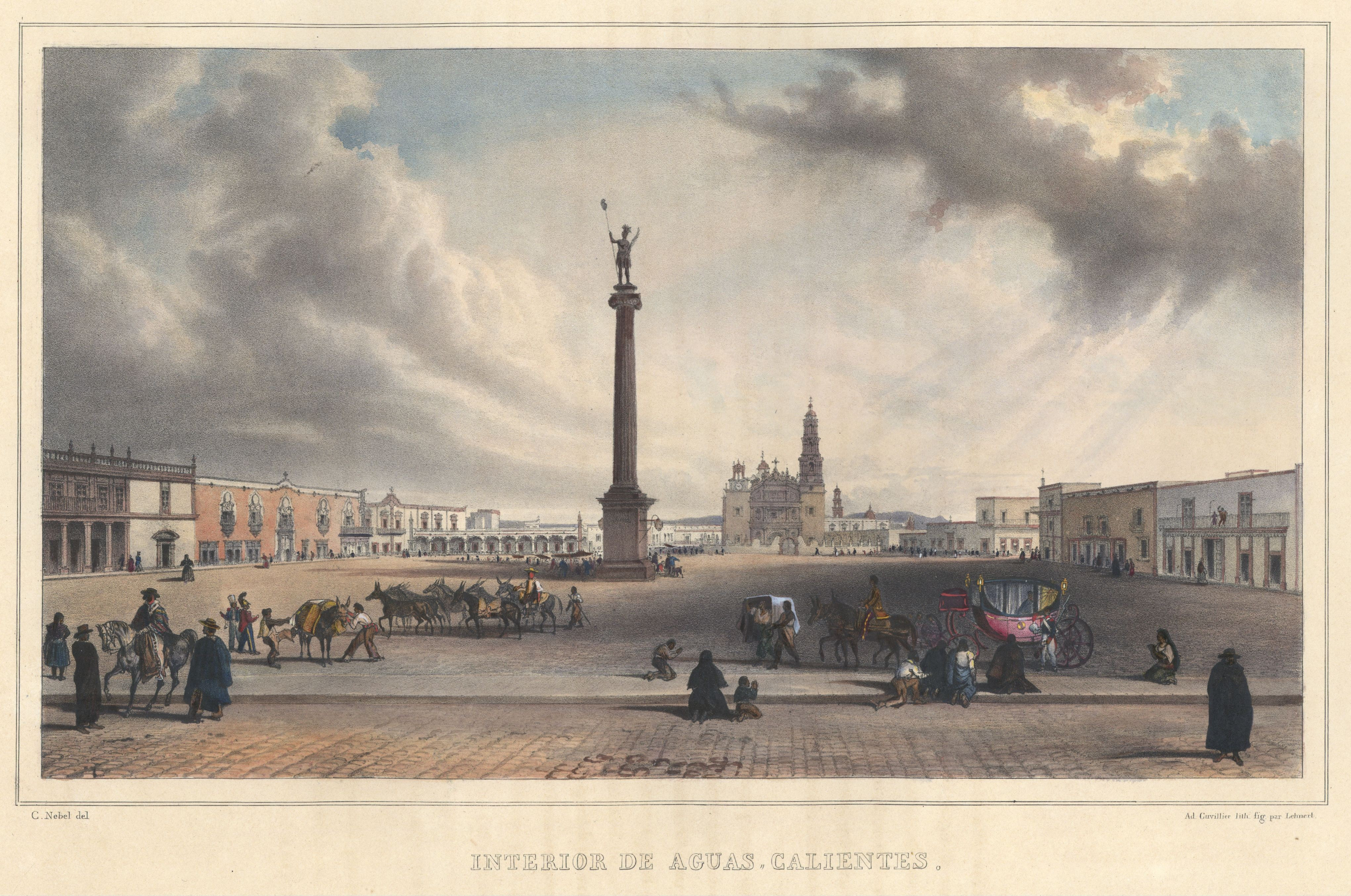 Interior de Aguas Calientes, view of Aguascalientes, Aguascalientes. Hand-colored lithograph highlighted with gum arabic. Original size (neat lines): 33.6×20 cm.